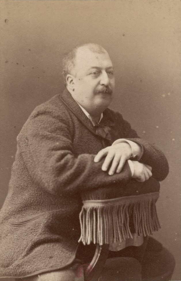 William Bertrand Busnach, French dramatist and librettist